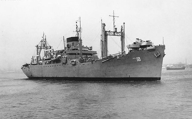 USS President Jackson (APA-18), photographed 8 March 1947, in the Elizabeth River below the Norfolk Navy Yard, Portsmouth, VA. Note the snow on the ship.